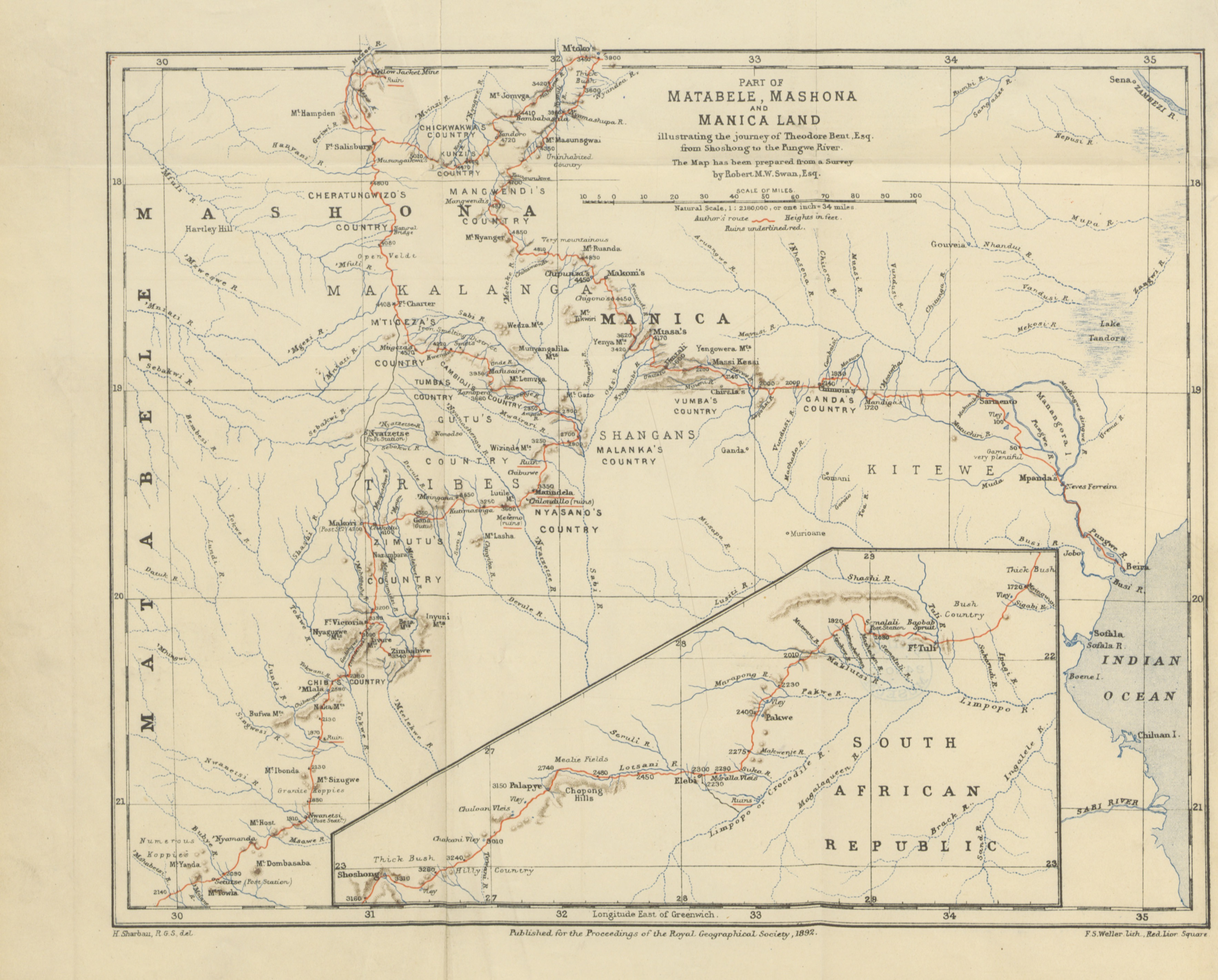 Part of Matabele, Mashona and Manicaland illustrating the journey of Theodore Bent, Esq. from Shoshong to the Pungwe river. The map has been prepared from a survey by Robert M W Swan, Esq., ruins underlined. View this map on the BL Georeferencer service. Image taken from: Title: "The Ruined Cities of Mashonaland: being a record of excavation and exploration in 1891 ... With a chapter on the orientation and mensuration of the temples by R. M. W. Swan. [With plates.]" Author: BENT, James Theodore. Contributor: SWAN, Robert McNavi Wilson. Shelfmark: "British Library HMNTS 010096.ff.22." Page: 10 Place of Publishing: London Date of Publishing: 1892 Publisher: Longmans & Co. Issuance: monographic Identifier: 000277001 Explore: Find this item in the British Library catalogue, 'Explore'. Open the page in the British Library's itemViewer (page image 10) Download the PDF for this book Image found on book scan 10 (NB not a pagenumber)Download the OCR-derived text for this volume: (plain text) or (json) Click here to see all the illustrations in this book and click here to browse other illustrations published in books in the same year. Order a higher quality version from here.